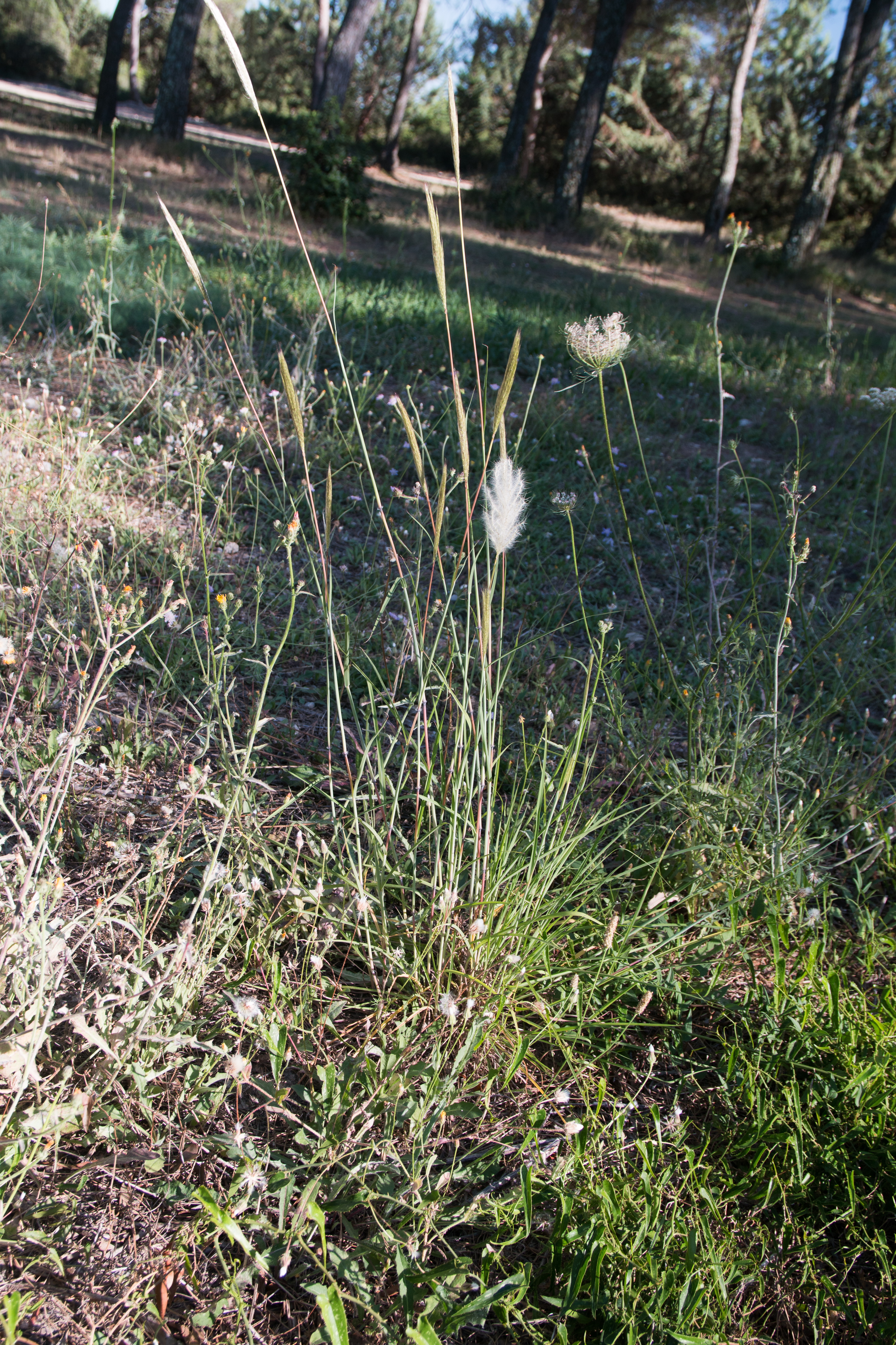 Solitary plant of Ravenna grass, Saccharum ravennae.